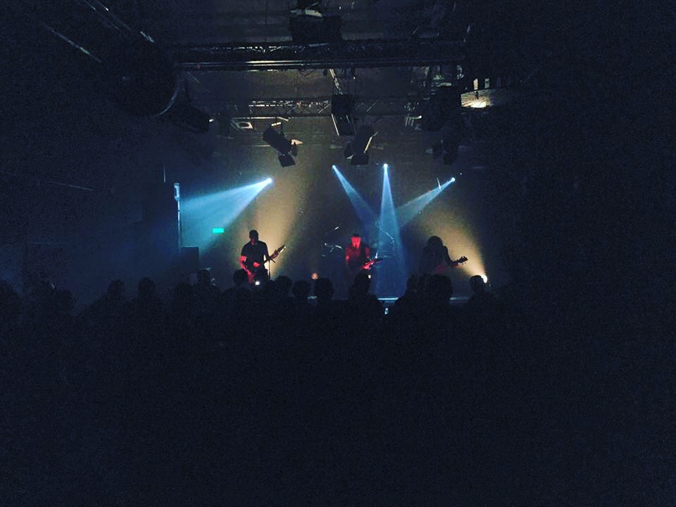 Live footage of the metal band cultura tres